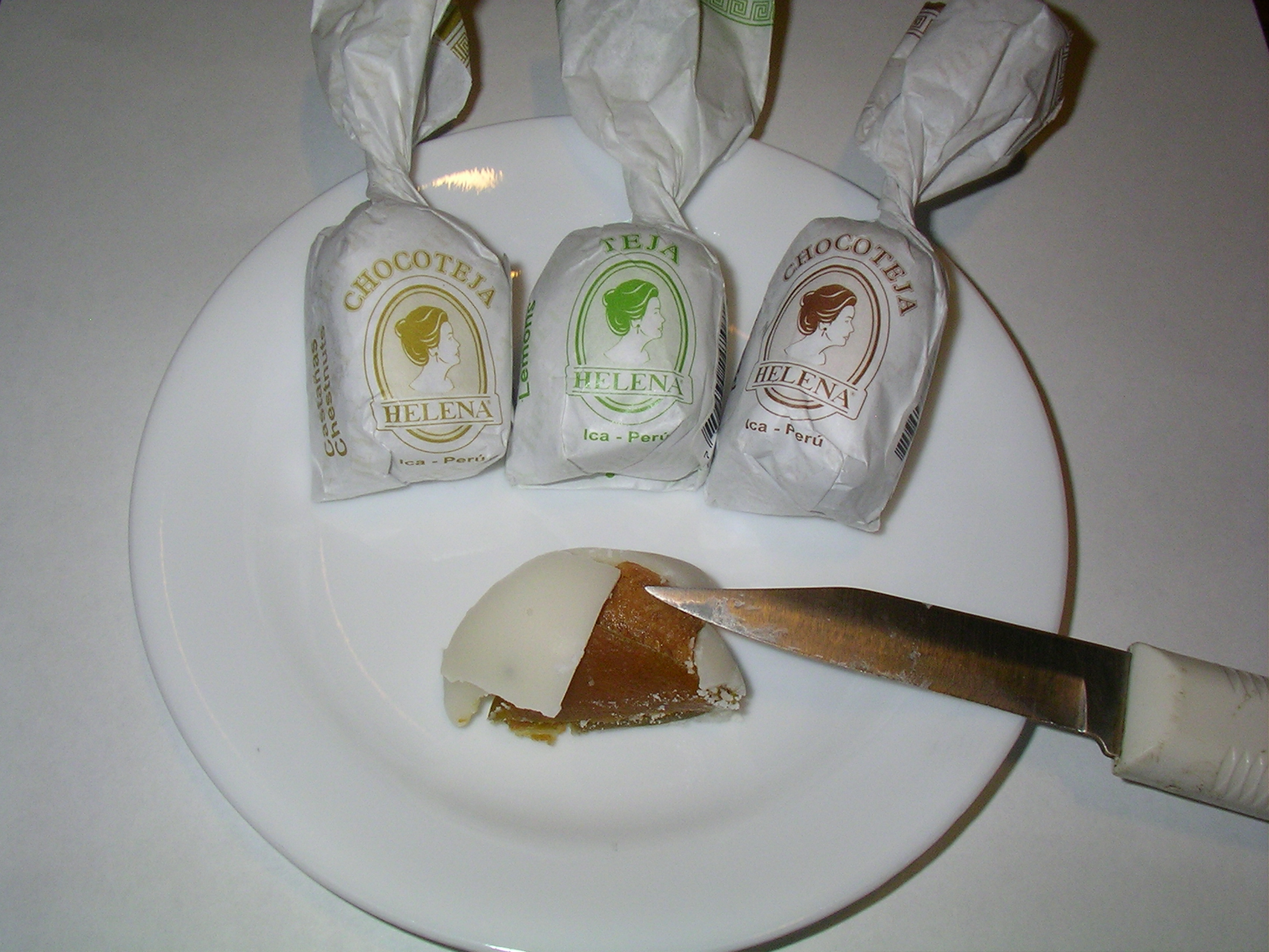 Three unopened Helena Chocolatier tejas and one cut in half. Photograph taken by me.